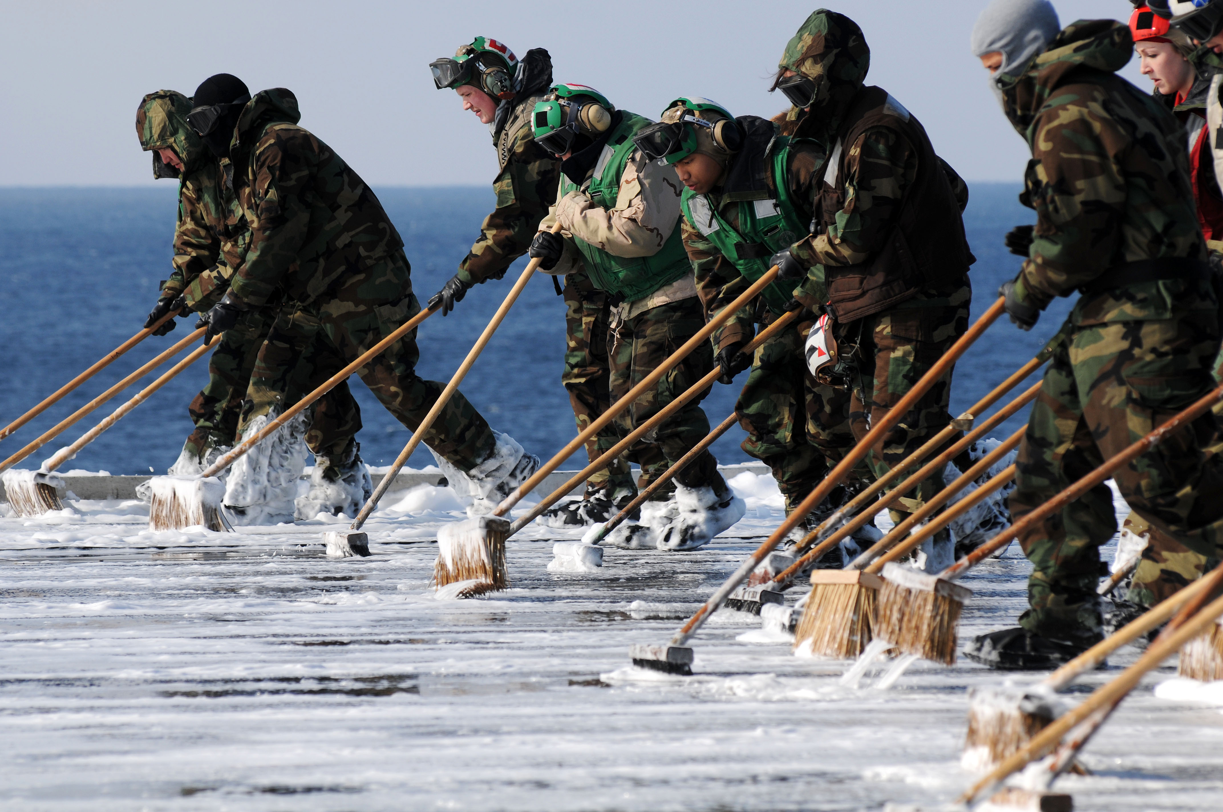 PACIFIC OCEAN (March 23, 2011) Sailors scrub the flight deck aboard the aircraft carrier USS Ronald Reagan (CVN 76) following a countermeasure wash down to decontaminate the flight deck while the ship is operating off the coast of Japan. Sailors scrubbed the external surfaces on the flight deck and island superstructure to remove potential radiation contamination. Ronald Reagan is operating off the coast of Japan providing humanitarian assistance as directed in support of Operation Tomodachi. (U.S. Navy photo by Mass Communication Specialist 3rd Class Kevin B. Gray/Released)